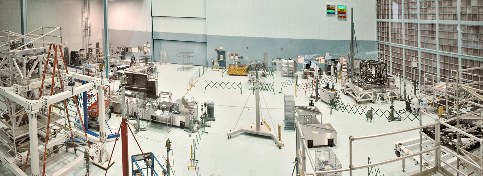 This panorama shows the inside of Goddard's High Bay Clean Room, as seen from the observation deck. Credit: NASA/Goddard Space Flight Center/Chris Gunn Go into a NASA Clean Room Daily with the Webb Telescope via NASA's 'Webb-cam' here: For more information on JWST go to: For more information on Goddard Space Flight Center go to